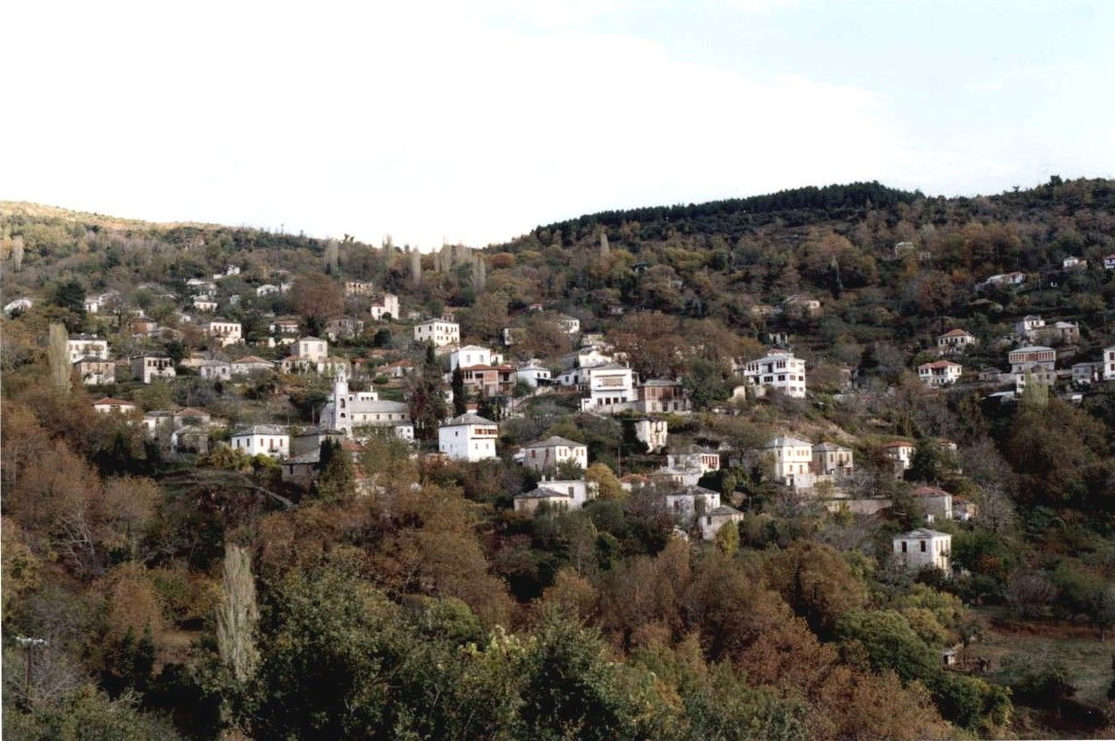 Agios Georgios Nilias in Magnesia Prefecture, Greece